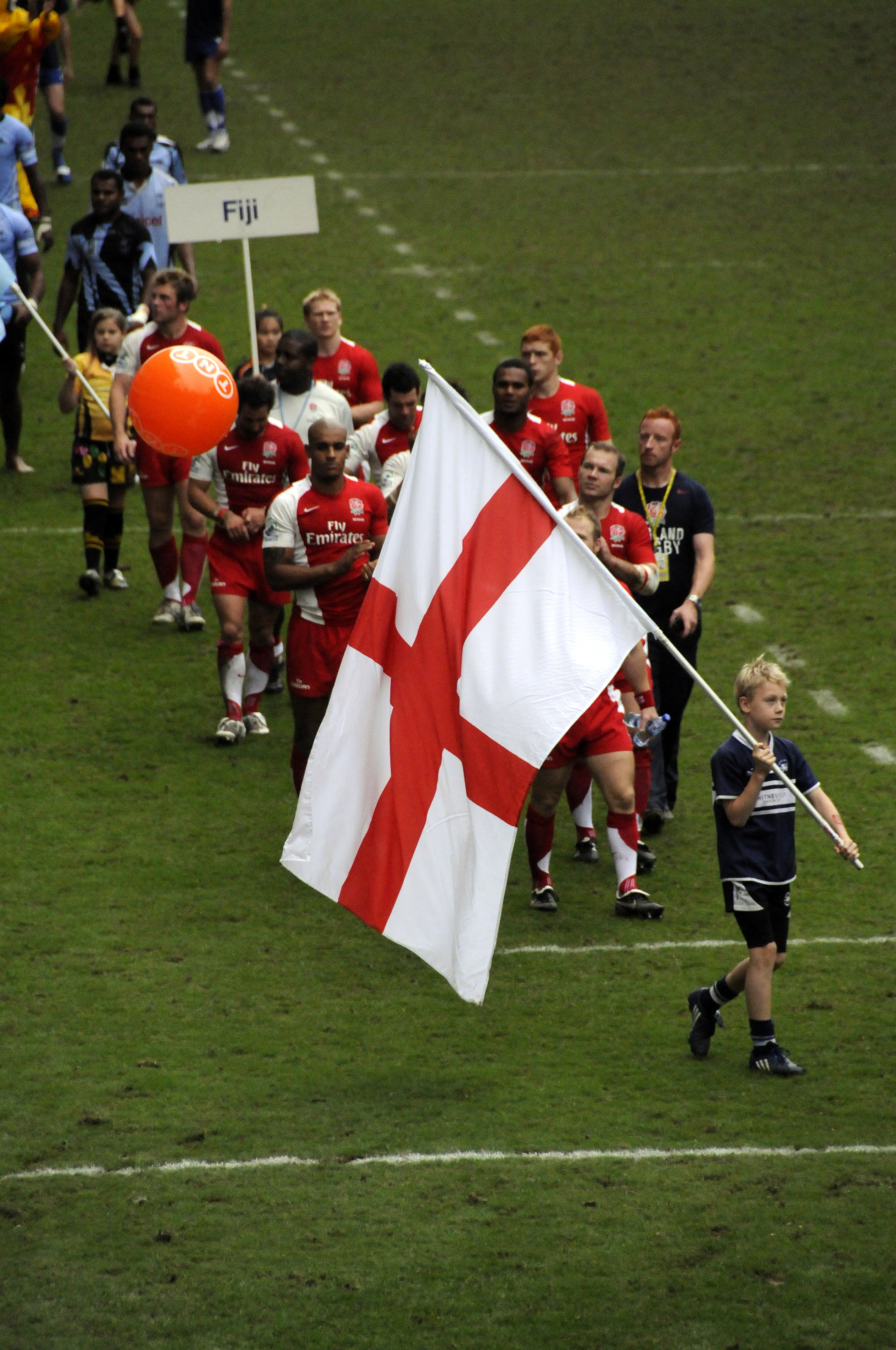 England Sevens Rugby Team